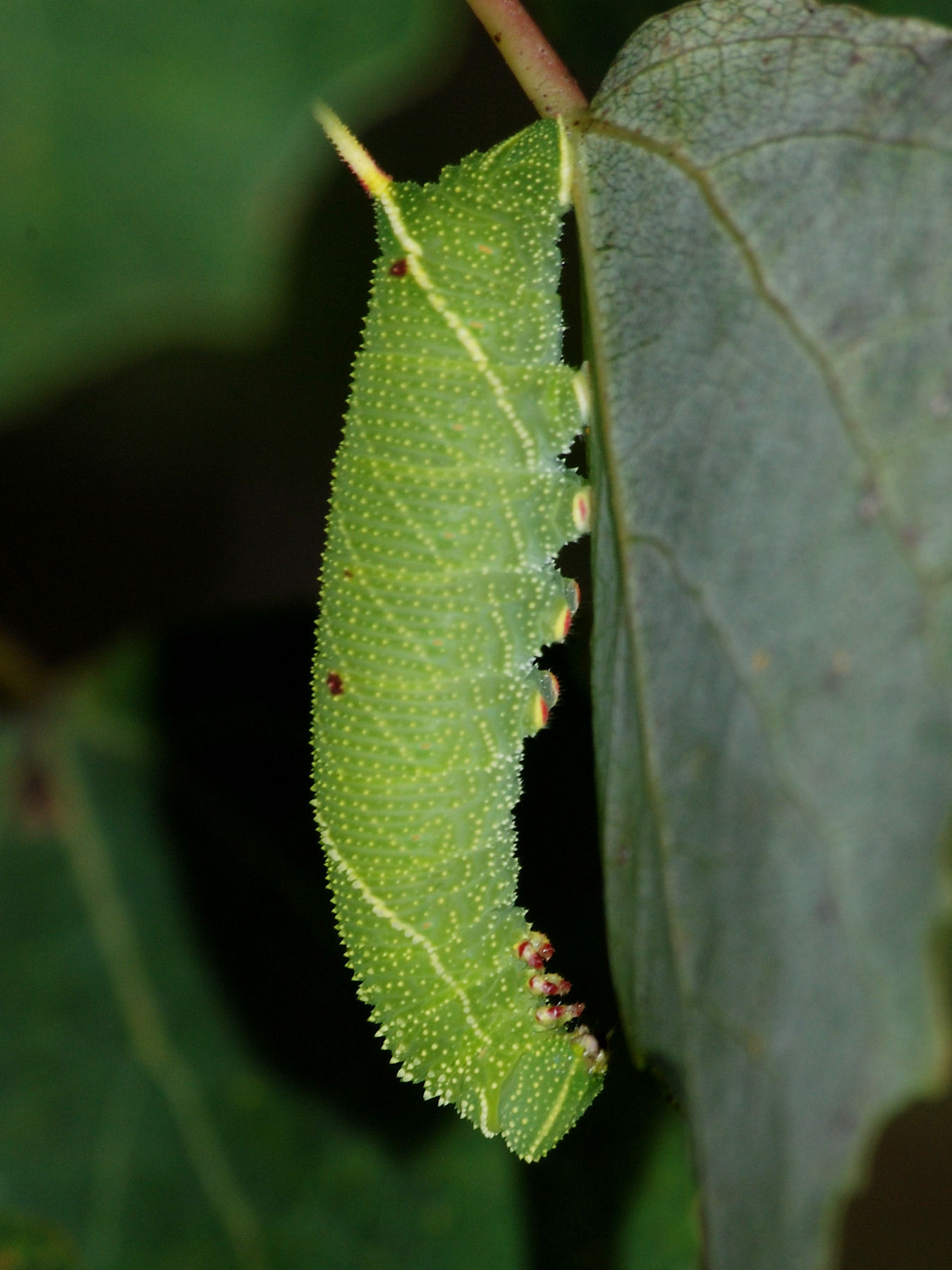 Laothoe populi